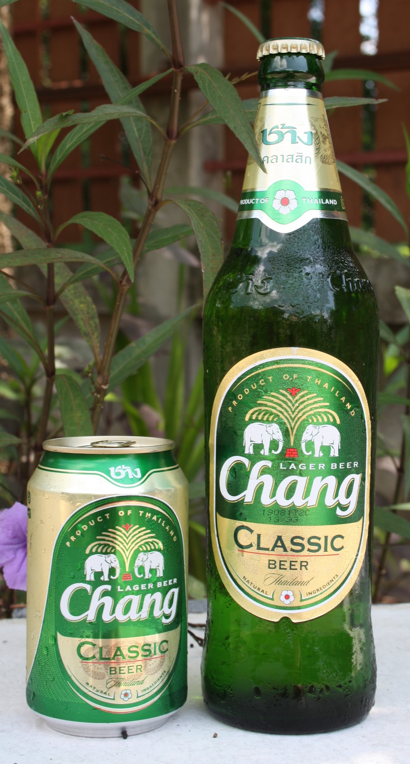 The new Chang Classic Beer since 2015